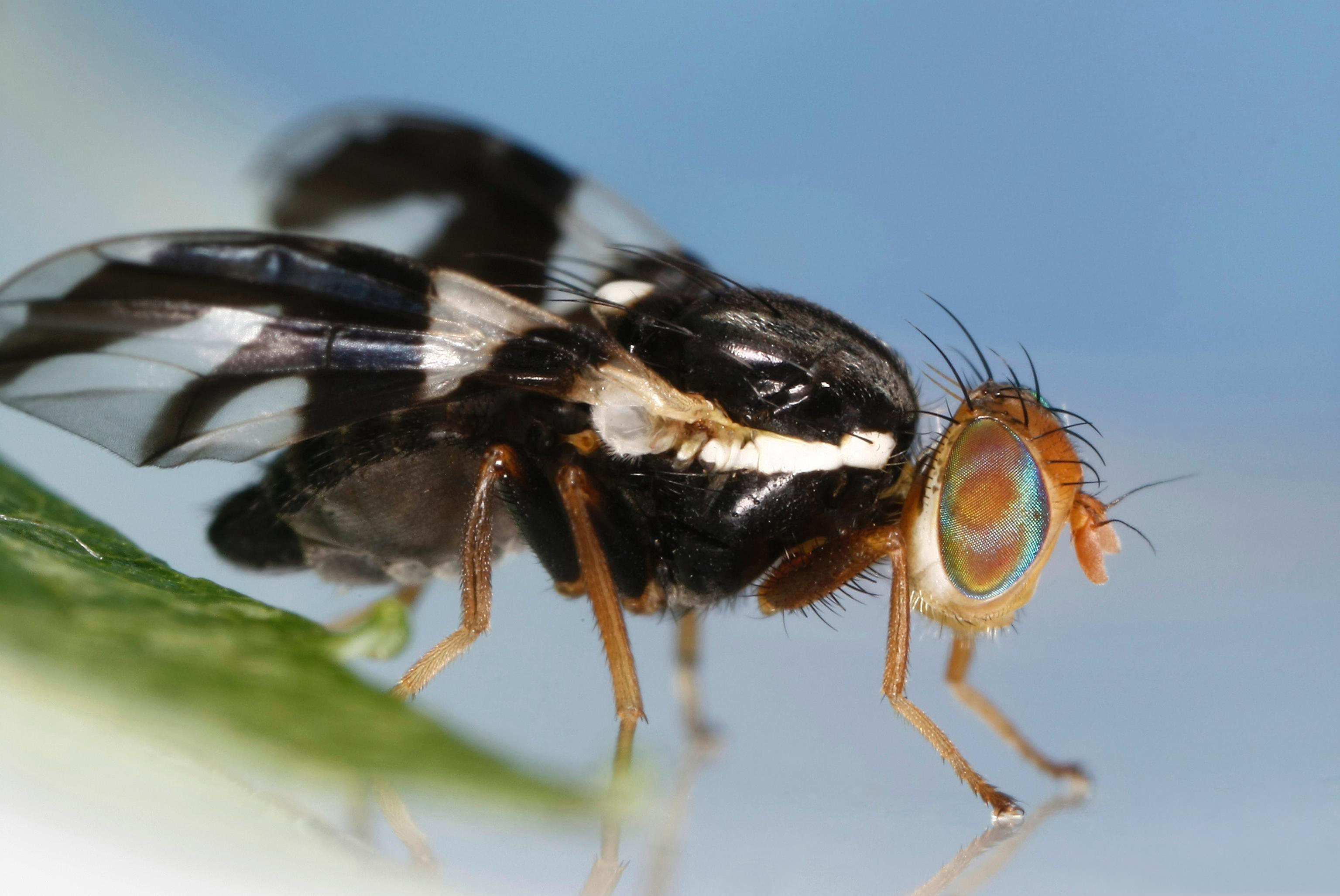 female apple maggot (Rhagoletis pomonella), image taken in Lakewood, Colorado, United States